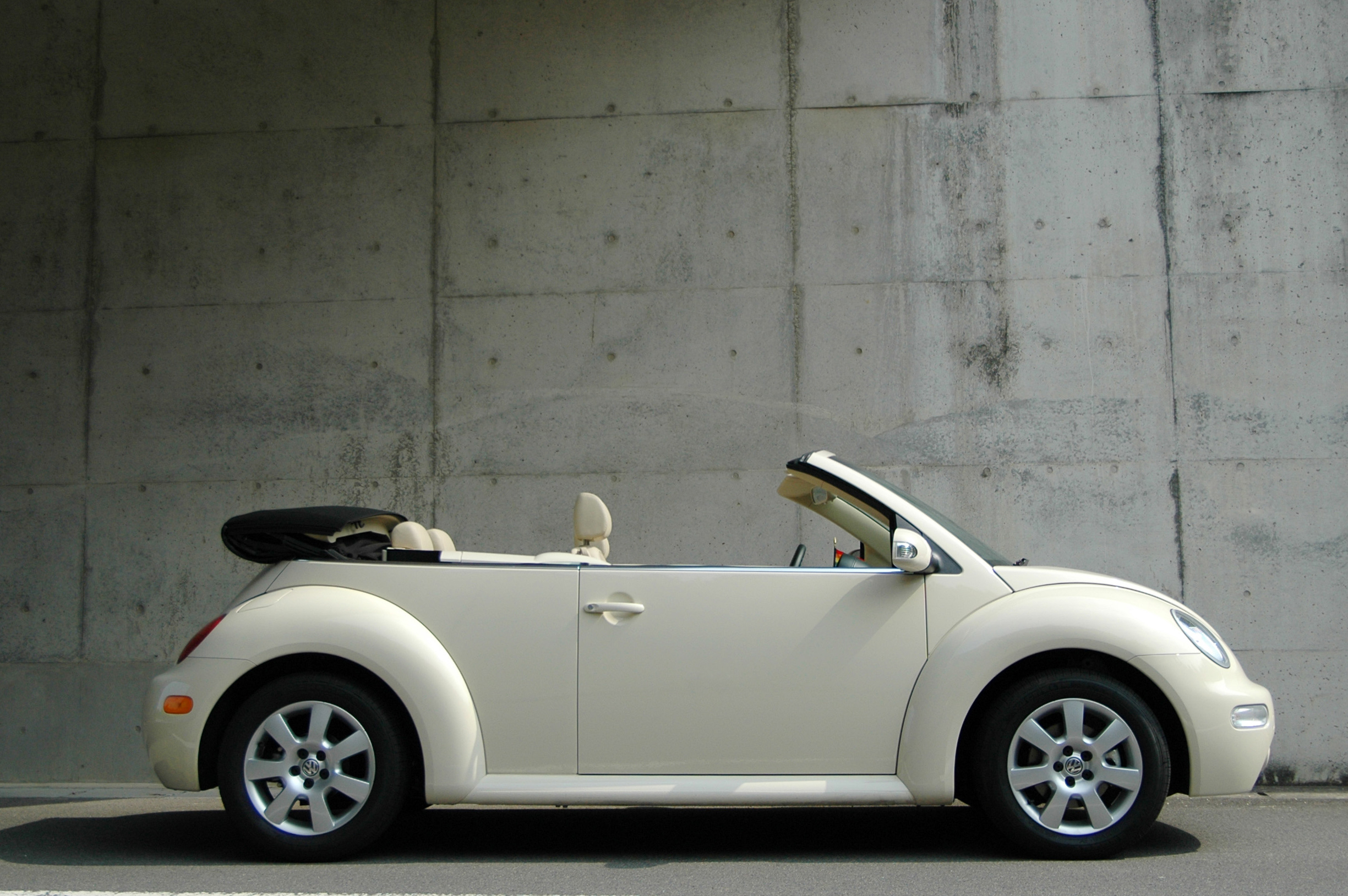 New Beetle Cabriolet